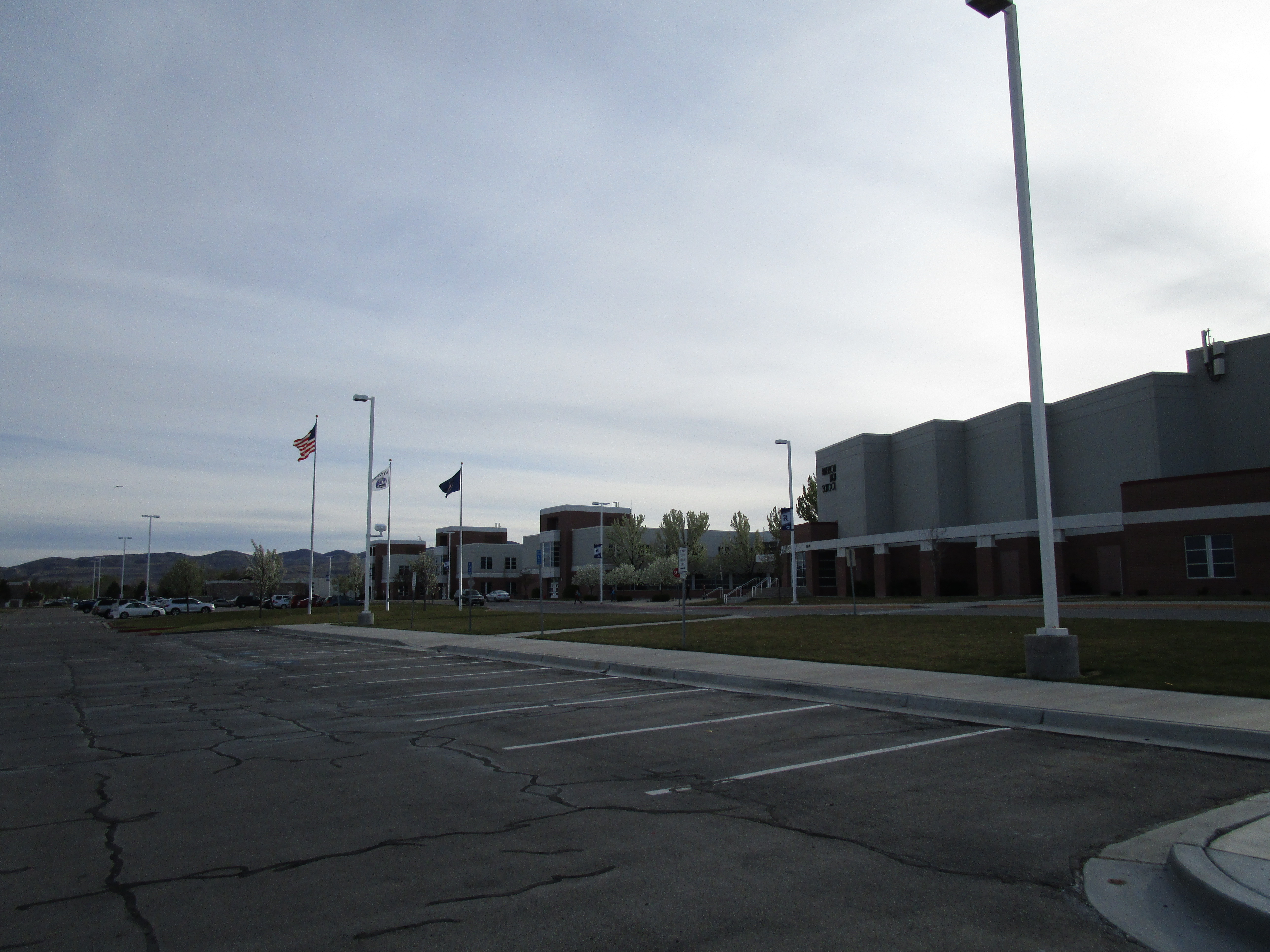 Riverton High School (Utah)